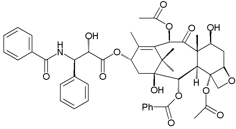 Taxol Total Synthesis